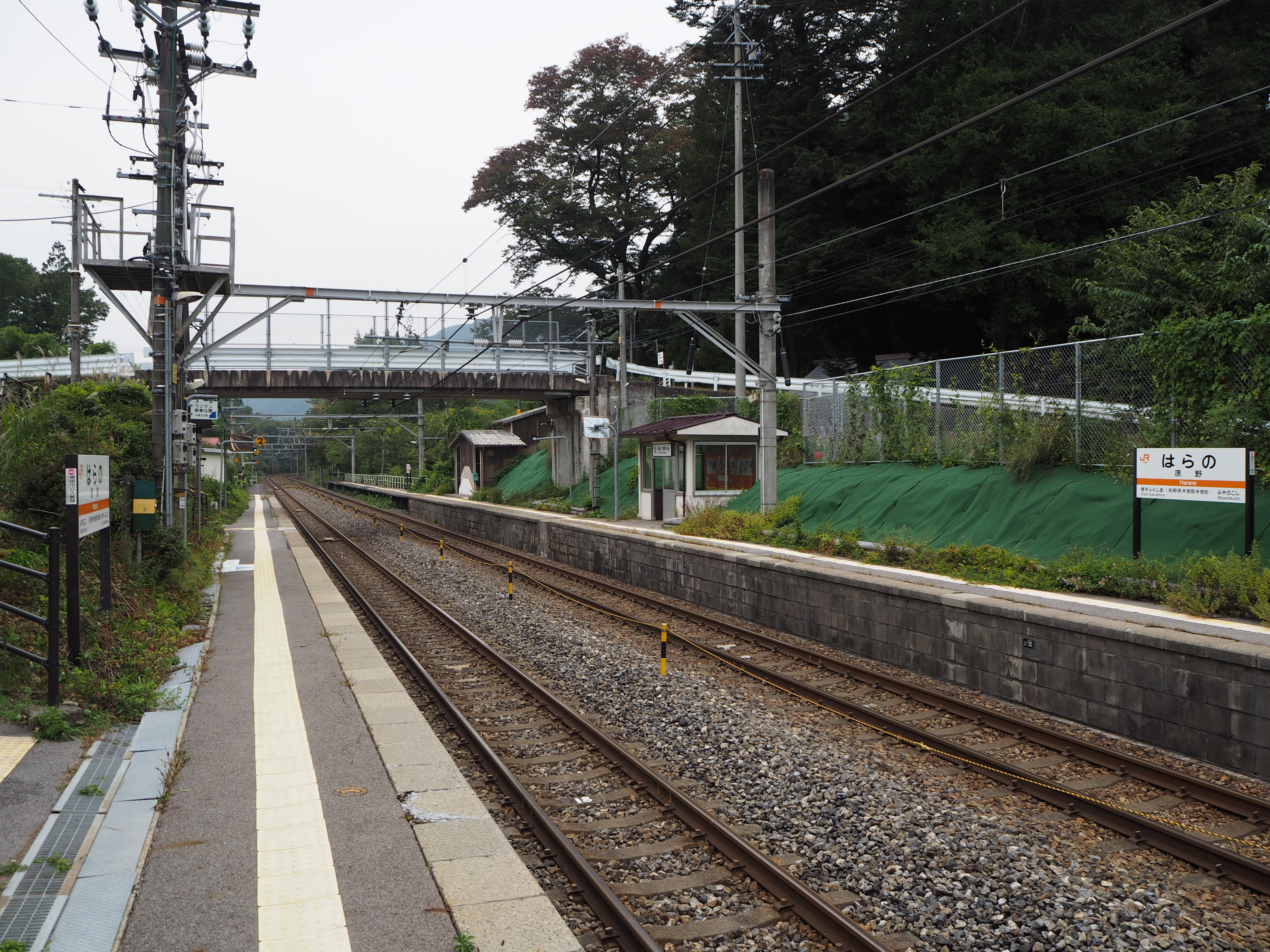 Platforms of Harano Station